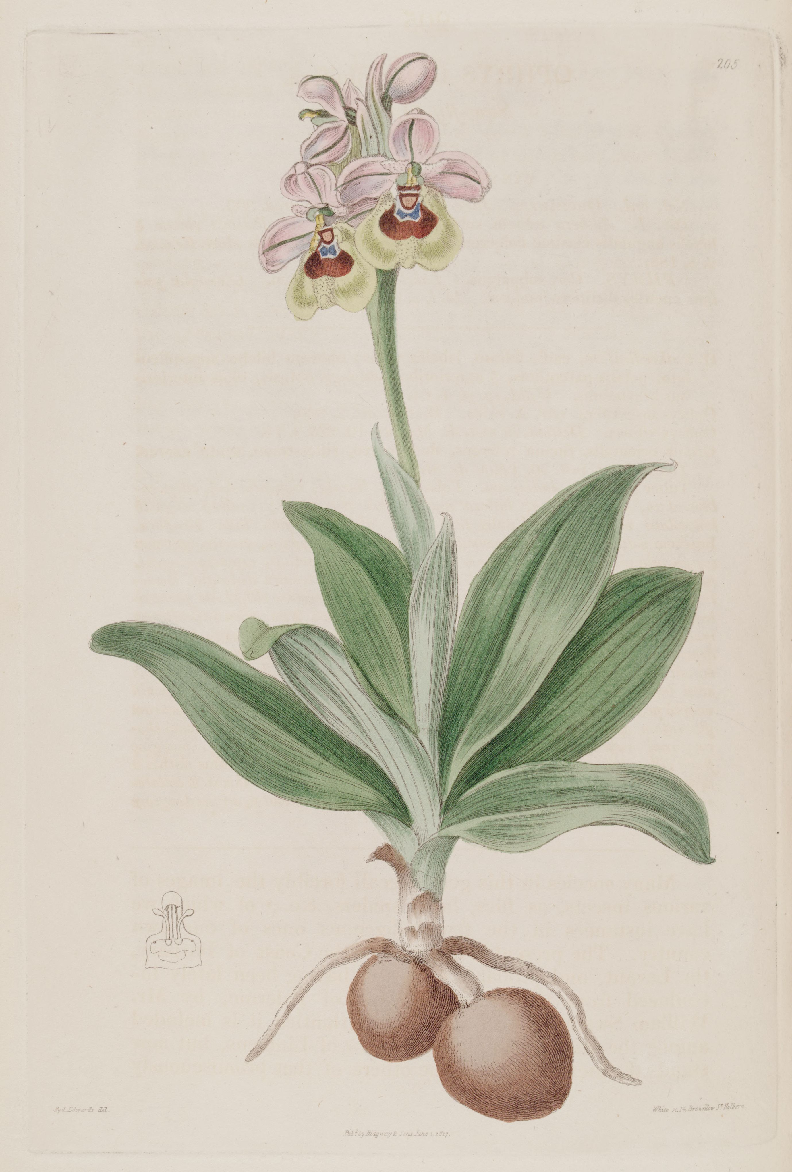 Illustration of Ophrys tenthredinifera